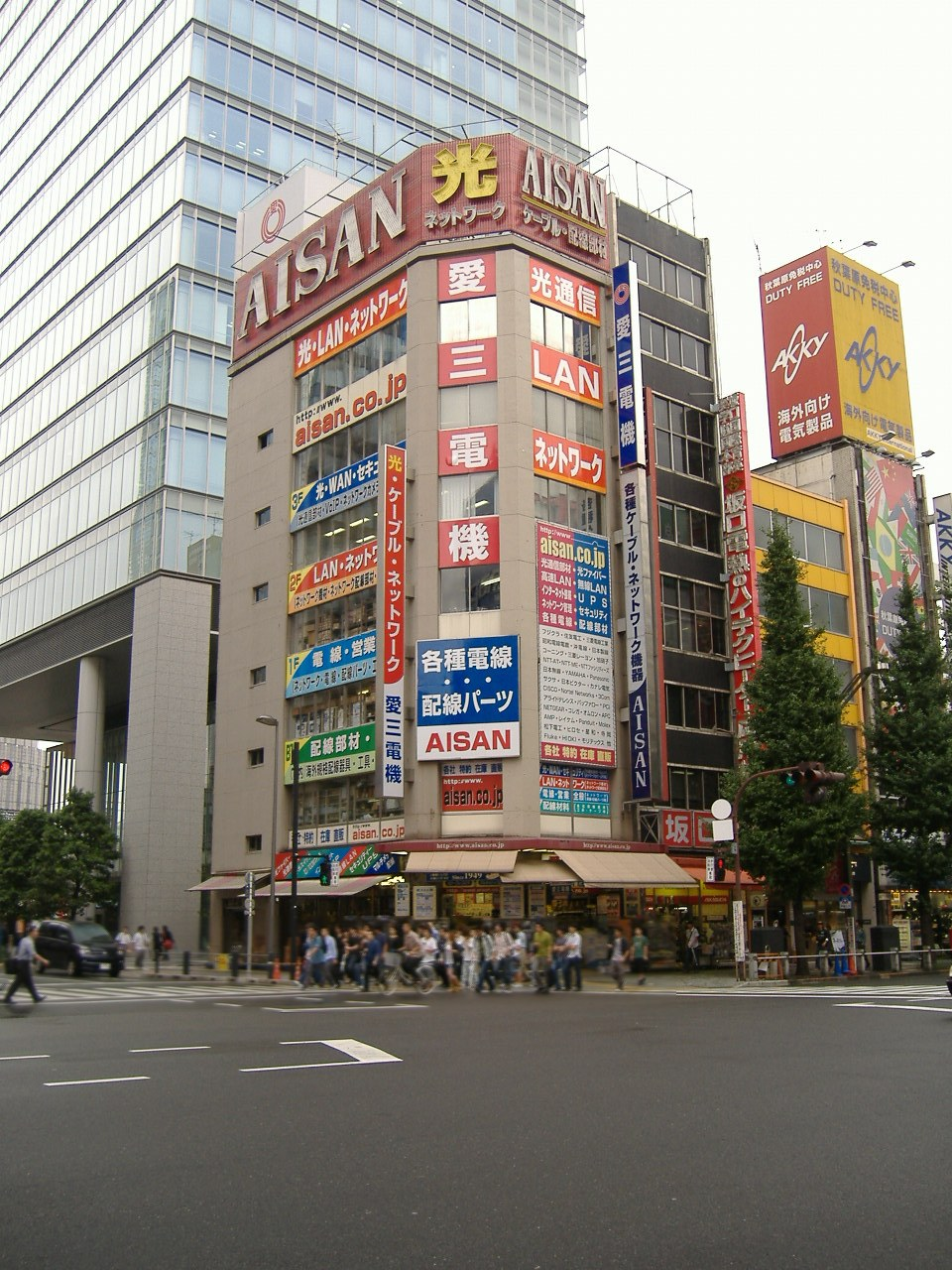 "Aisan Denki" Electrical components shop (Akihabara, Japan)